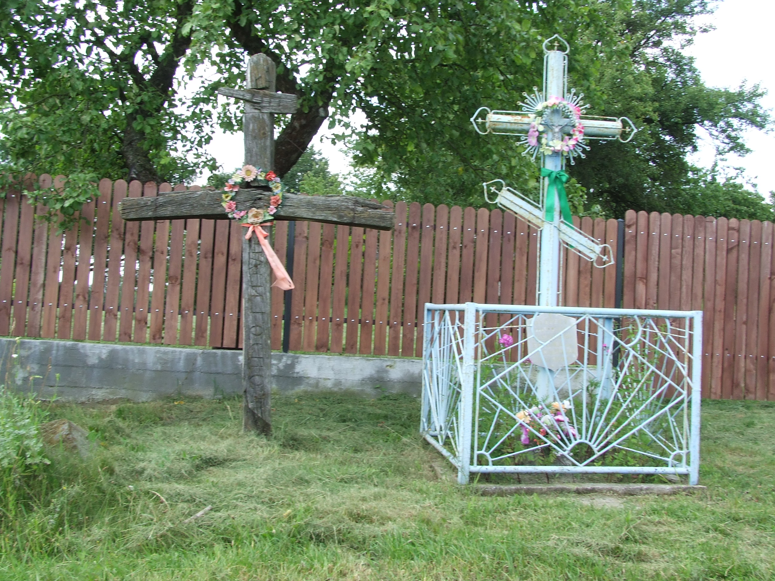 This photo from Podlaskie Voievodeship was taken during Polish Wikiexpedition 2009 set up by Wikimedia Polska Association. The making of this document was supported by Wikimedia Polska. Crosses near Pohulanka